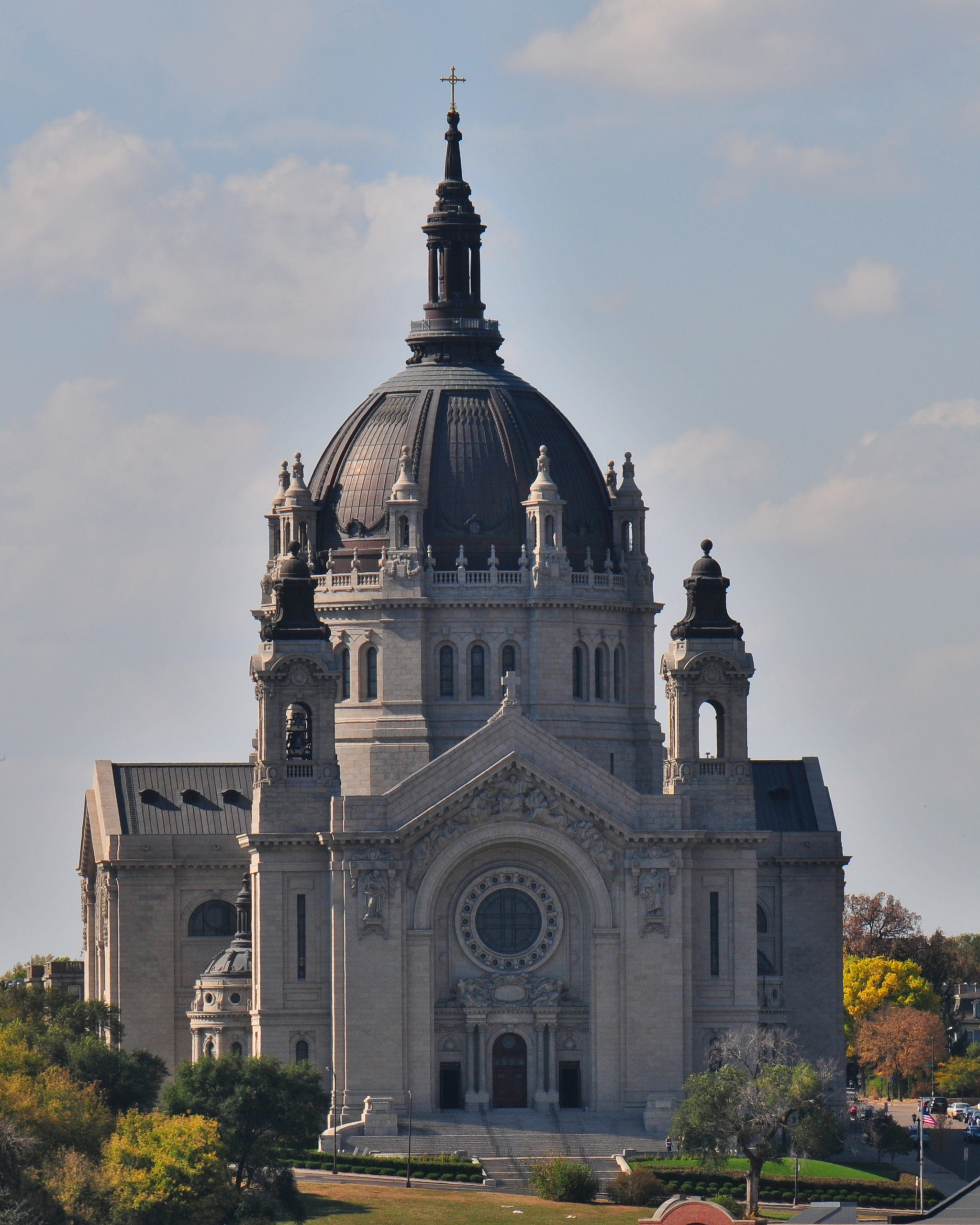 The Cathedral of St. Paul as viewed from the top of the Landmark Center.